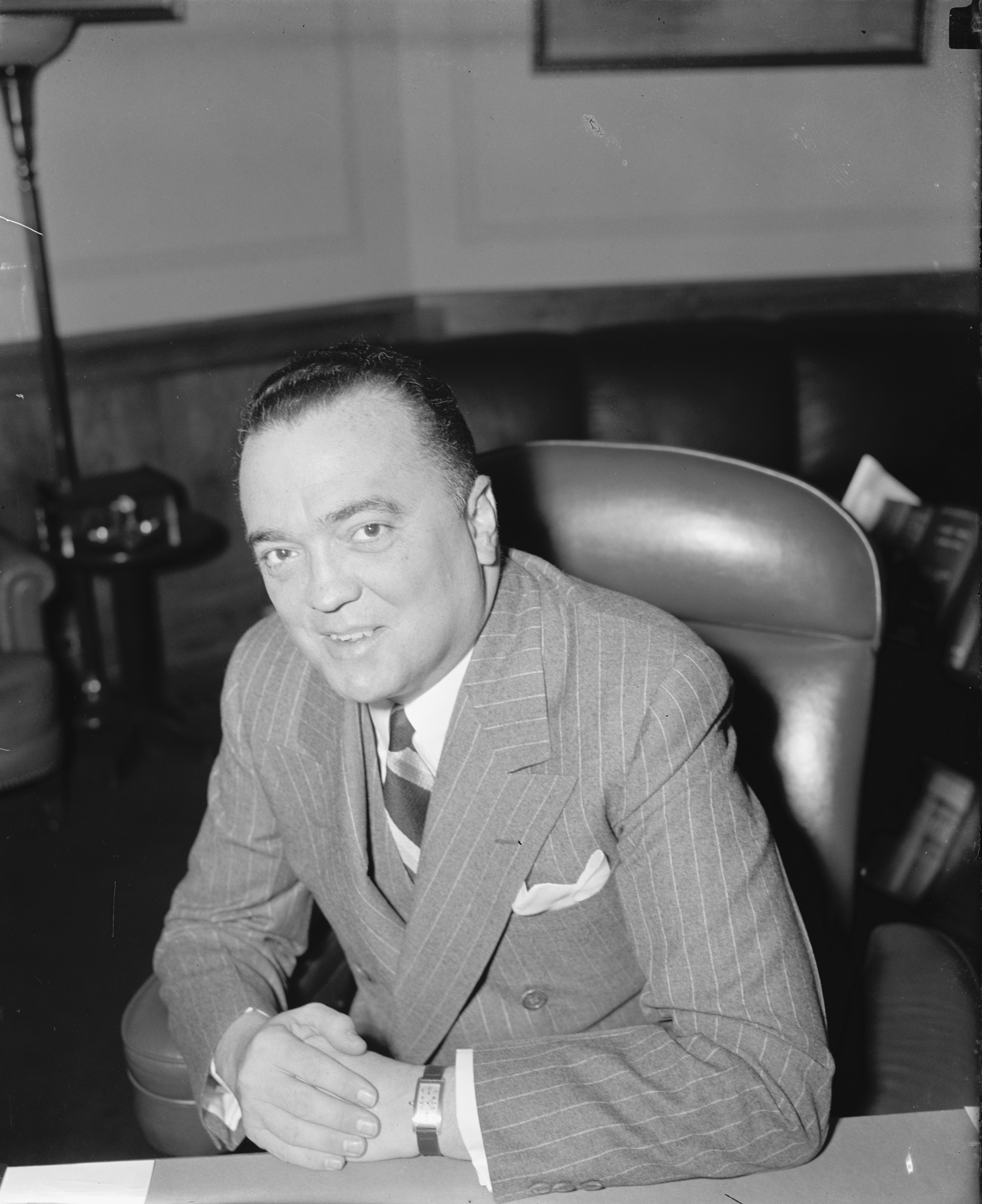 Informal photo of J. Edgar Hoover, Director of FBI, Dept. of Justice, April 5, 1940